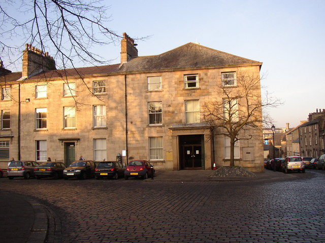 Palatine Hall, Dalton Square, Lancaster Built in 1798 as a Roman Catholic church. Later a cinema and now council offices.